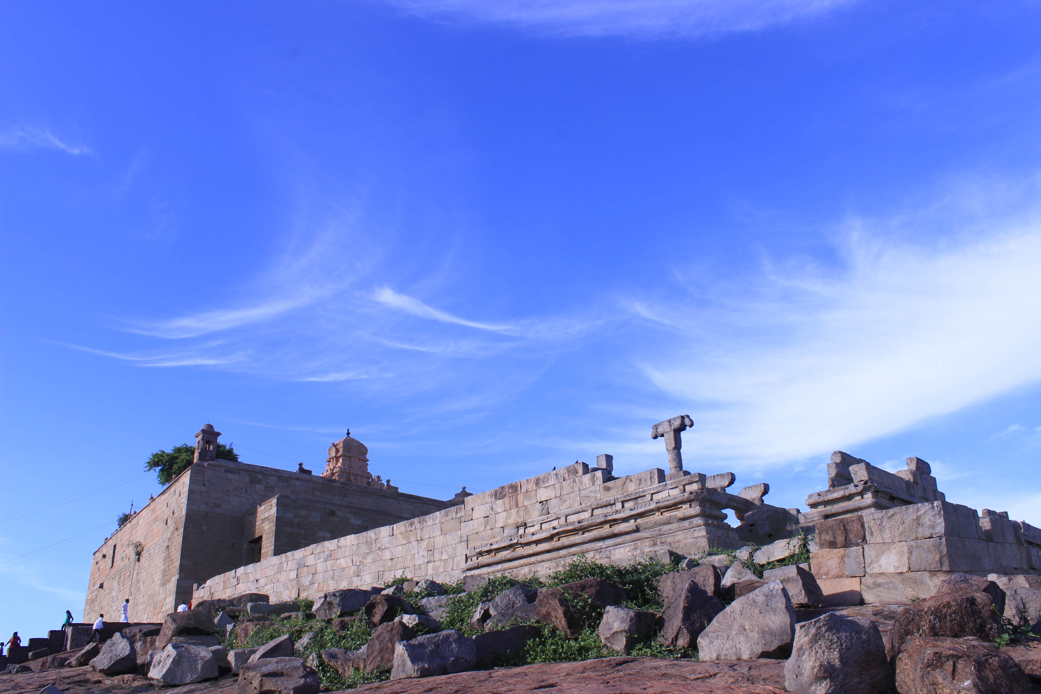 Siva Temple (Erumbisvara Temple)